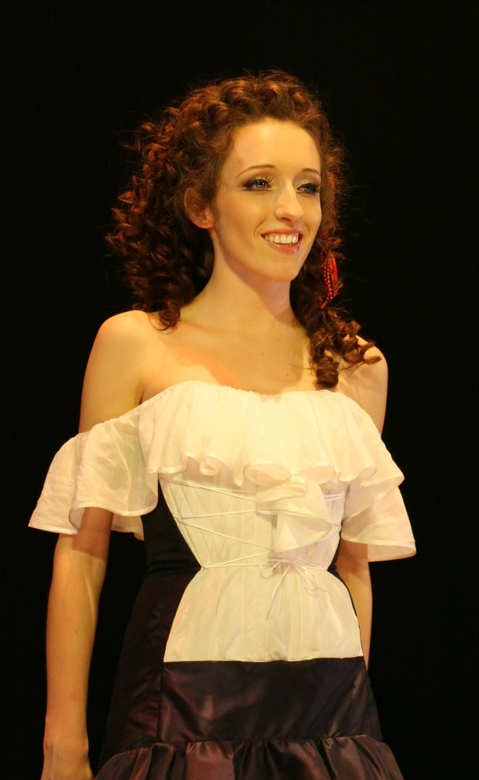 Edyta Krzemień as Christine in "The Phantom of the Opera", Roma Musical Theatre in Warsaw, 7 June 2008.